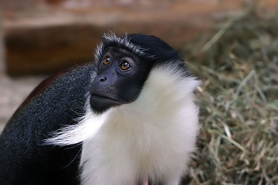 Roloway Monkey (Cercopithecus roloway)